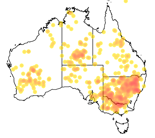 Map showing recorded occurrences of inland broad-nosed bats.